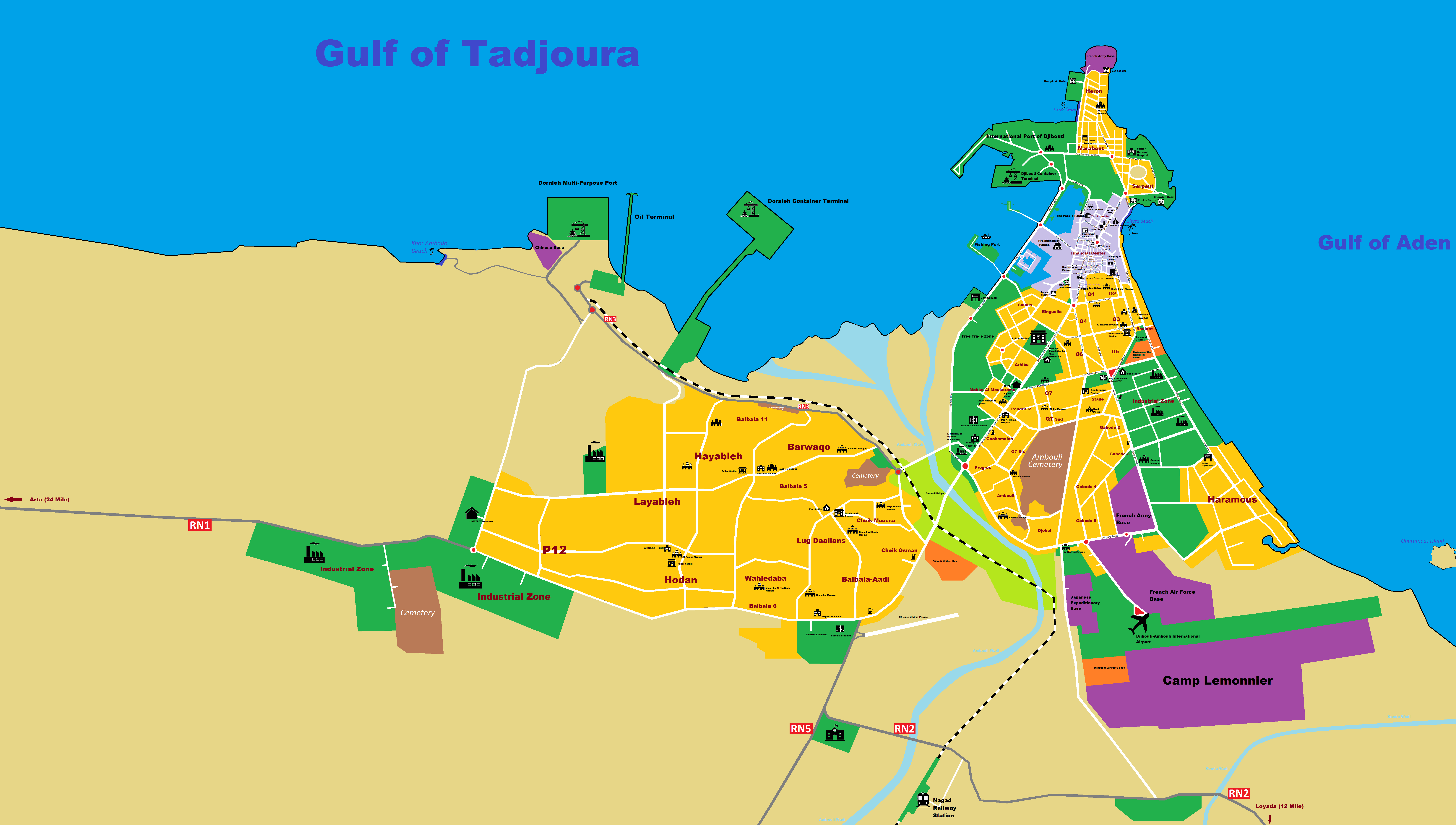 Updated Map Of Djibouti City and Balbala